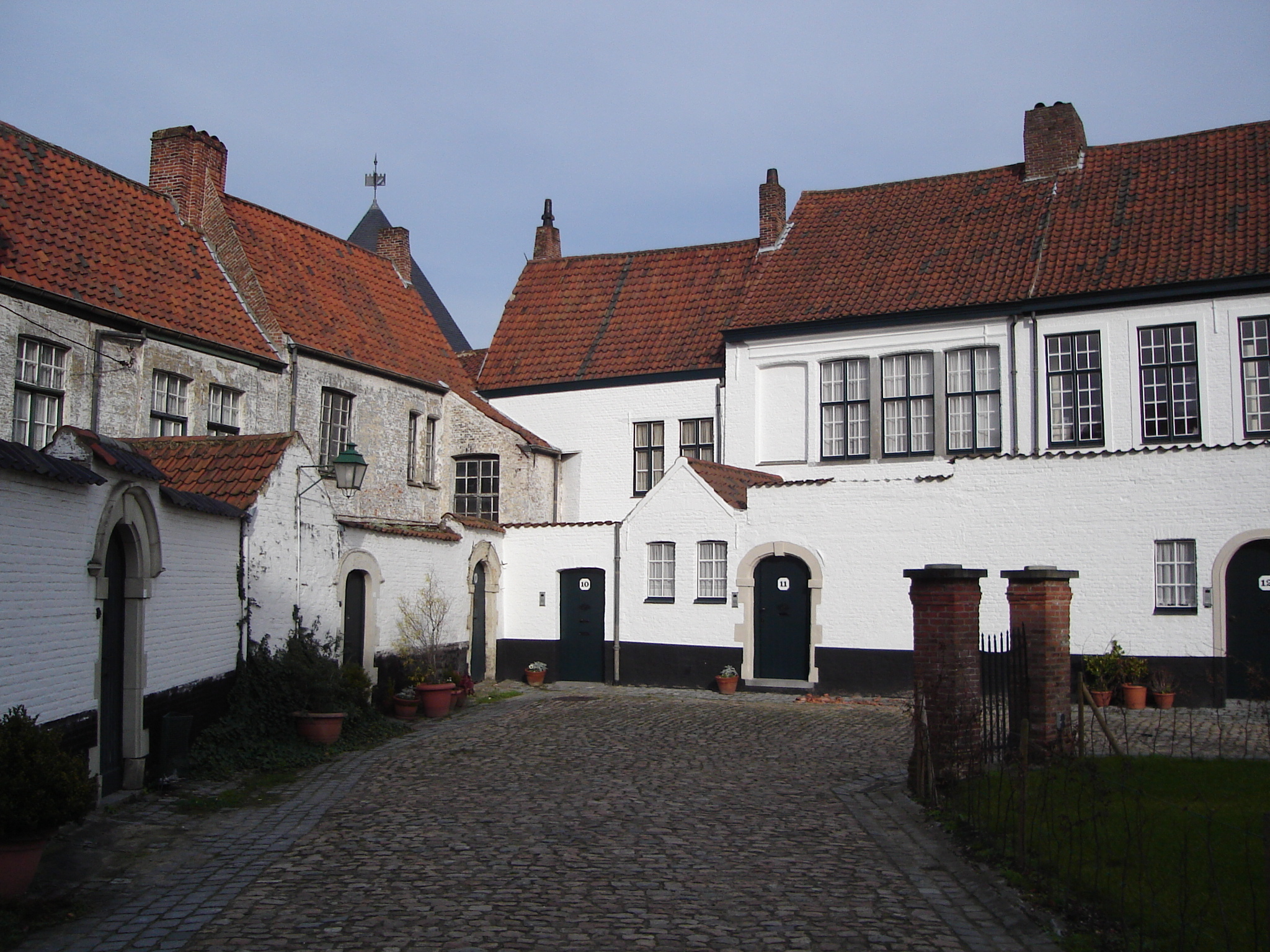 Begijnhof Saint Elisabeth courtyard, east side, Kortrijk, Belgium. Dwellings 10, 11 and 12 visible. Built around the 13th century.